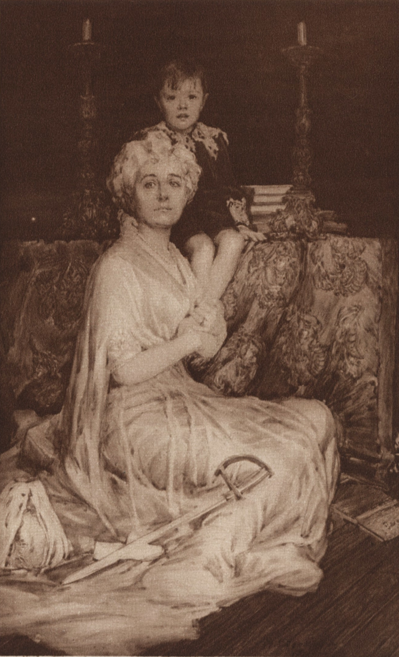 Lady David Beatty, daughter of the Late Marshall Field of Chicago, and wife of Admiral Sir David Beatty, with their young son. Lady Beatty was recently the Guest of Honor at a luncheon given by Queen Mary of Great Britain to the American Wives of Noted Englishmen. From a Portrait on Ivory by Mira Edgerly